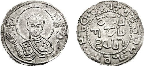 GEORGIA, Kingdom. Bagrat IV. 1027-1072. AR Dram (1.84 g, 12h). Struck 1060-1072. +HA ΓI A O KOC ("The Holy Th[eoto]kos" in Greek), nimbate facing bust of the Virgin Mary, orans / Georgian – "+God preserve Bagrat, King of the Abkhazians, Sebastos", in margin and continuing in central field. Kapanadze 46; Dobrovolsky -; Lang p. 19. Good VF, strong strike. One of the great rarities of Georgian numismatics; perhaps five other examples known, all in museums. ($3000) Bagrat followed his father Giorgi I to the throne of Georgia at the age of nine, and his reign was a constant struggle with opponents seeking the throne and expansionist Byzantine emperors. Bagrat saw off two pretenders from other branches of the royal family, but the Duke of Kldekari, Liparit, was a constant thorn in his side, and in 1051 Bagrat had to flee to Constantinople, seeking Byzantine neutrality while he returned to deal with Liparit. Liparit fled in 1058, but only a few years later Georgia faced a greater threat – the Seljuq sultan Alp Arslan who ravaged southern Georgia in a series of raids. Bagrat IV died in 1072, having fought the Seljuqs to a draw and preserved Georgian unity and independence.